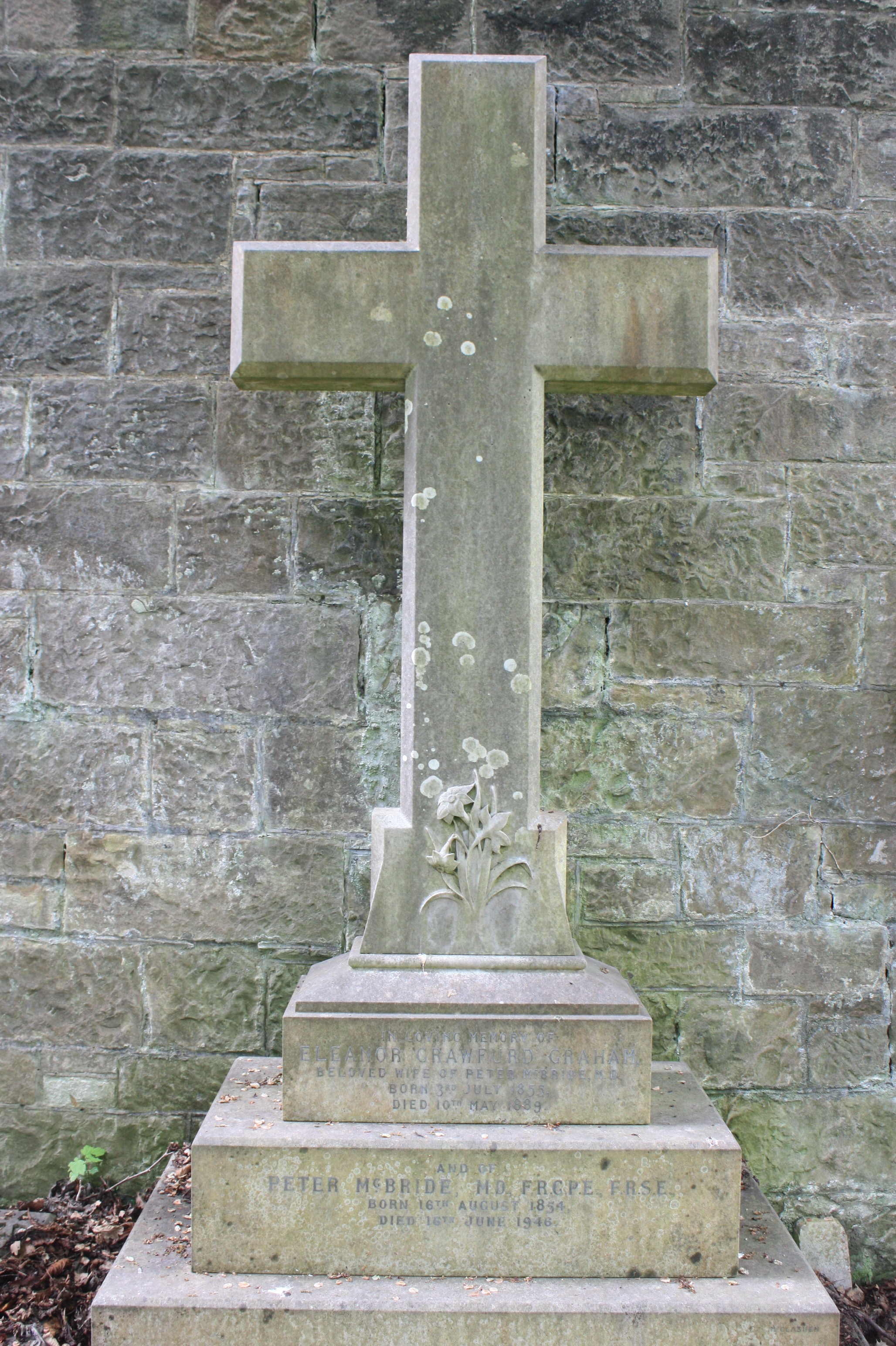 The grave of Dr Peter McBride, Dean Cemetery, Edinburgh